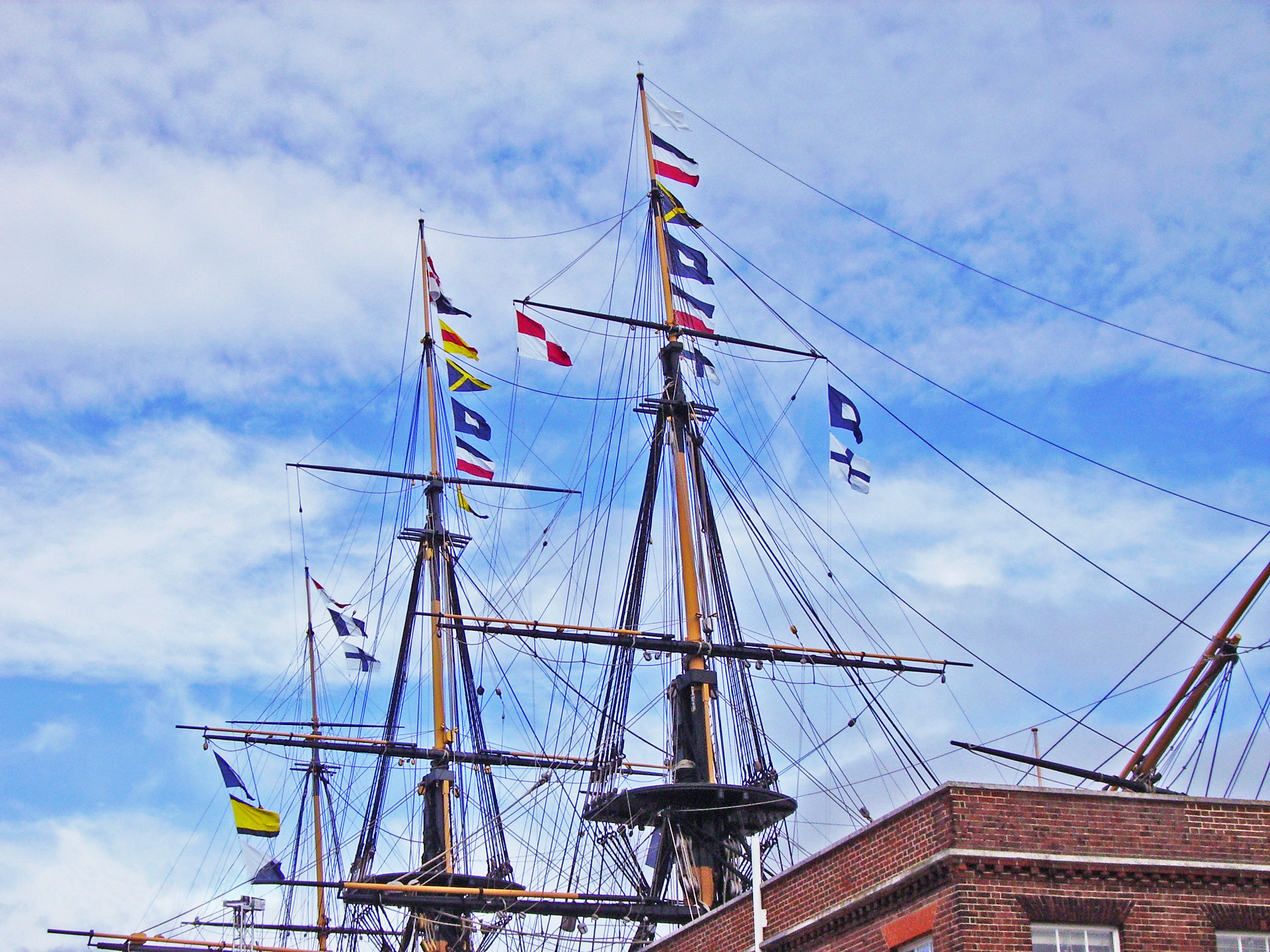 In fact some letters are missing. I is signaled: "England expects every man will do his u"